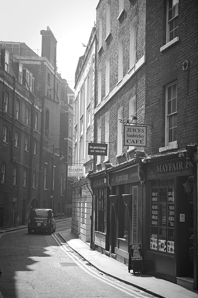 Shepherd Market, Mayfair, London W1J